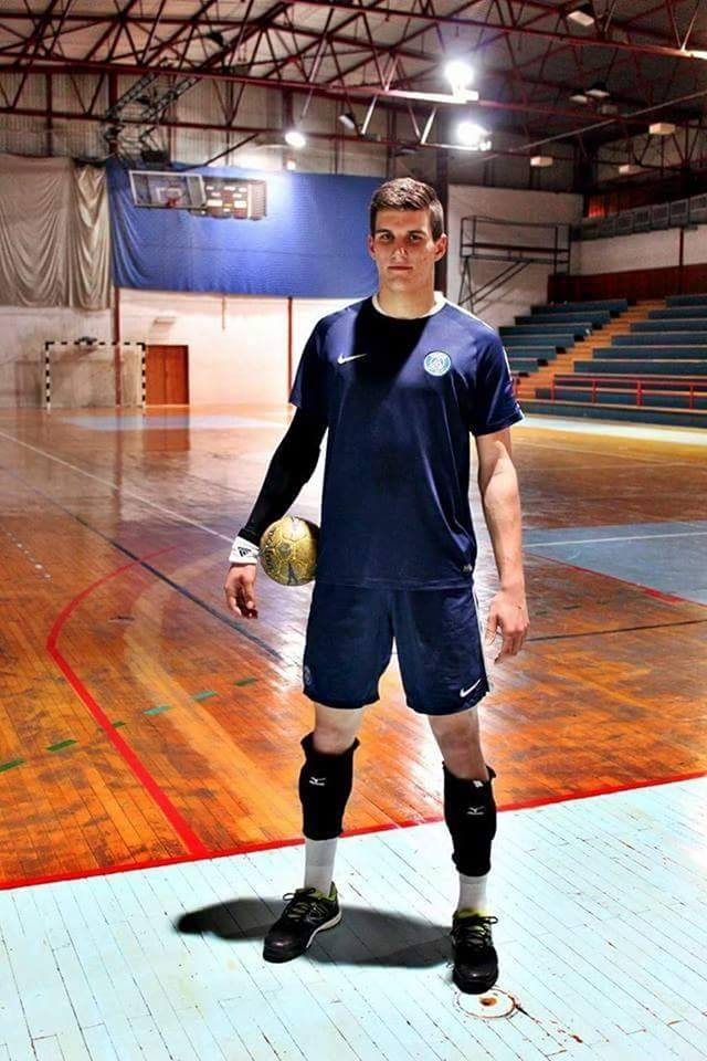 This is a photo of Croatian handball player Halil Jaganjac taken in Rijeka in 2016 when he played with RK Kozala.